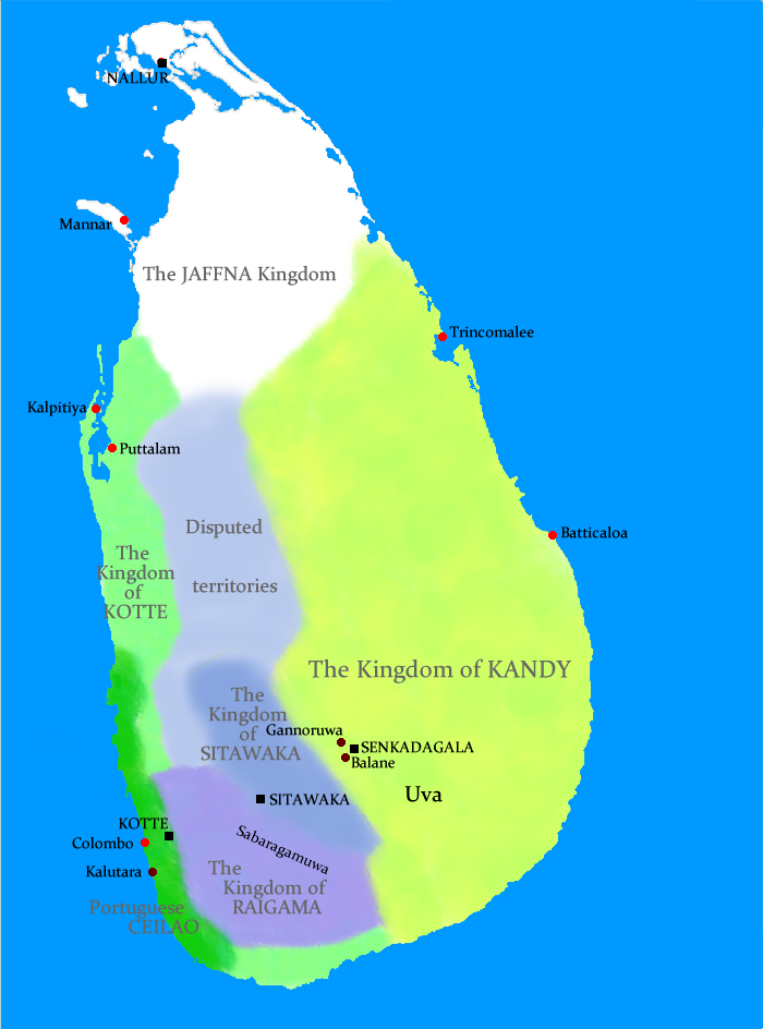 Geopolitical situation in Sri Lanka in the 1520s This map has serious errors - Colombo is marked wrong and according to the map, Anuradhapura is shown as part of Jaffna Kingdom. No References are given either.